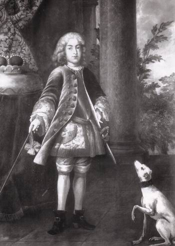 Portrait of John Theodore of Bavaria (1703-1763)